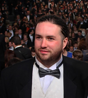 Photograph of Dominic Burns at the Cannes Film Festival in Cannes, 2013 Taken by NinjaPaddy